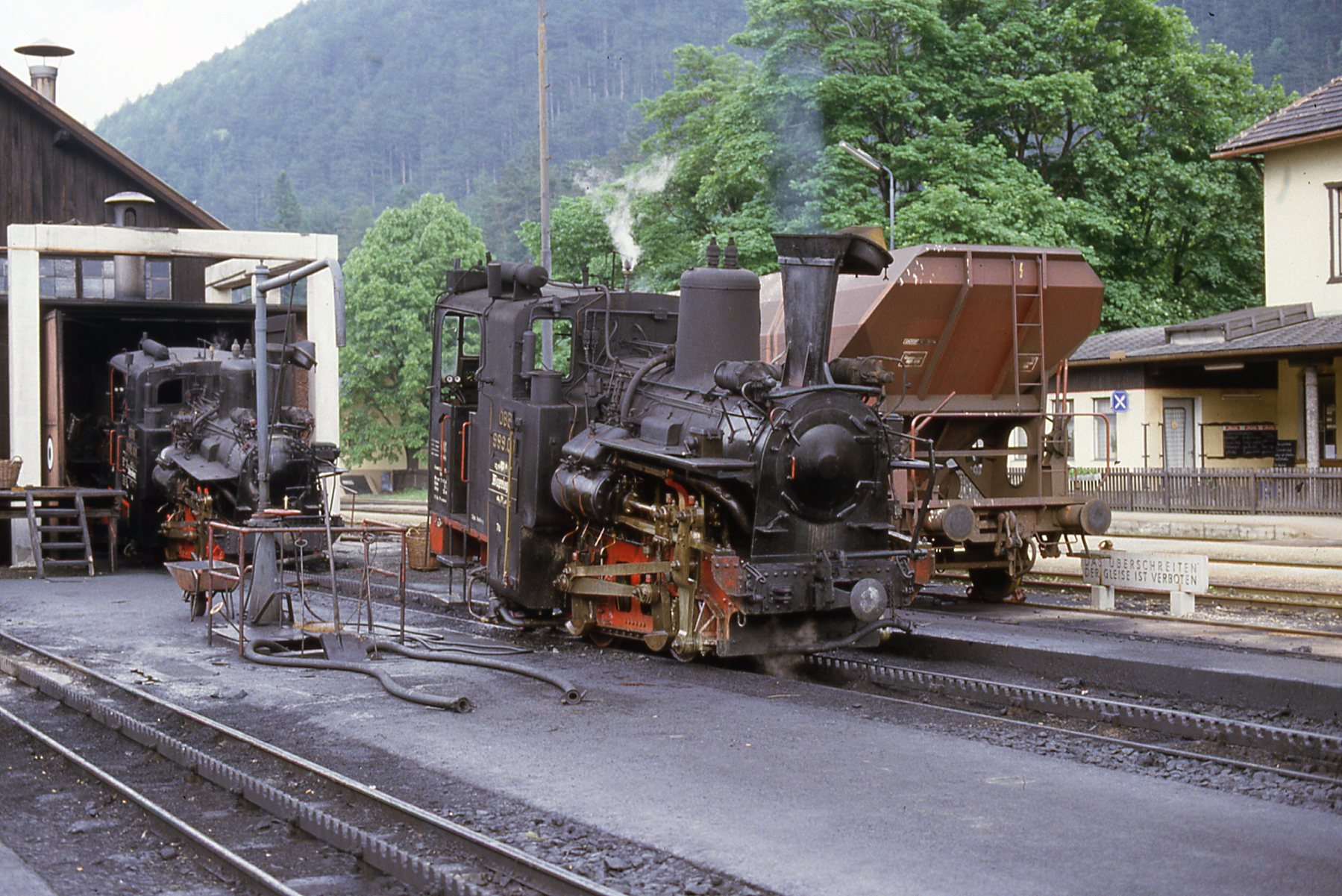 Two ÖBB 999 at the engine shed in Puchberg am Schneeberg station. The standard gauge tipper car supplies coal to the steam engines.